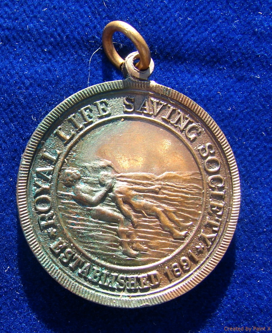 Bronze medallion, d= 30 mm, 3 mm thick. With loop for ribbon suspension. One swimmer rescuing the other, one with his/her hands on the side of the head of the second person. The whole bodies of both swimmers are clearly seen. The background shore is indistinct. Surrounding in a roman font: "THE ROYAL LIFE SAVING SOCIETY. The edge of this side has a milled pattern. / Around the edge that has a milled pattern: “QUEMCUNQUE MISERUM VEDERIS HOMINEM SCIAS” which may be translated as ‘Whomsoever you see in distress, recognize him as a fellow man.’ In the centre in two lines: “AWARDED TO” followed by a space in which the recipient’s name and the date of awarding were added: "JUNE PETERS 18 - 4- 34". Condition: EXTREMELY FINE, tarnish on the reverse.